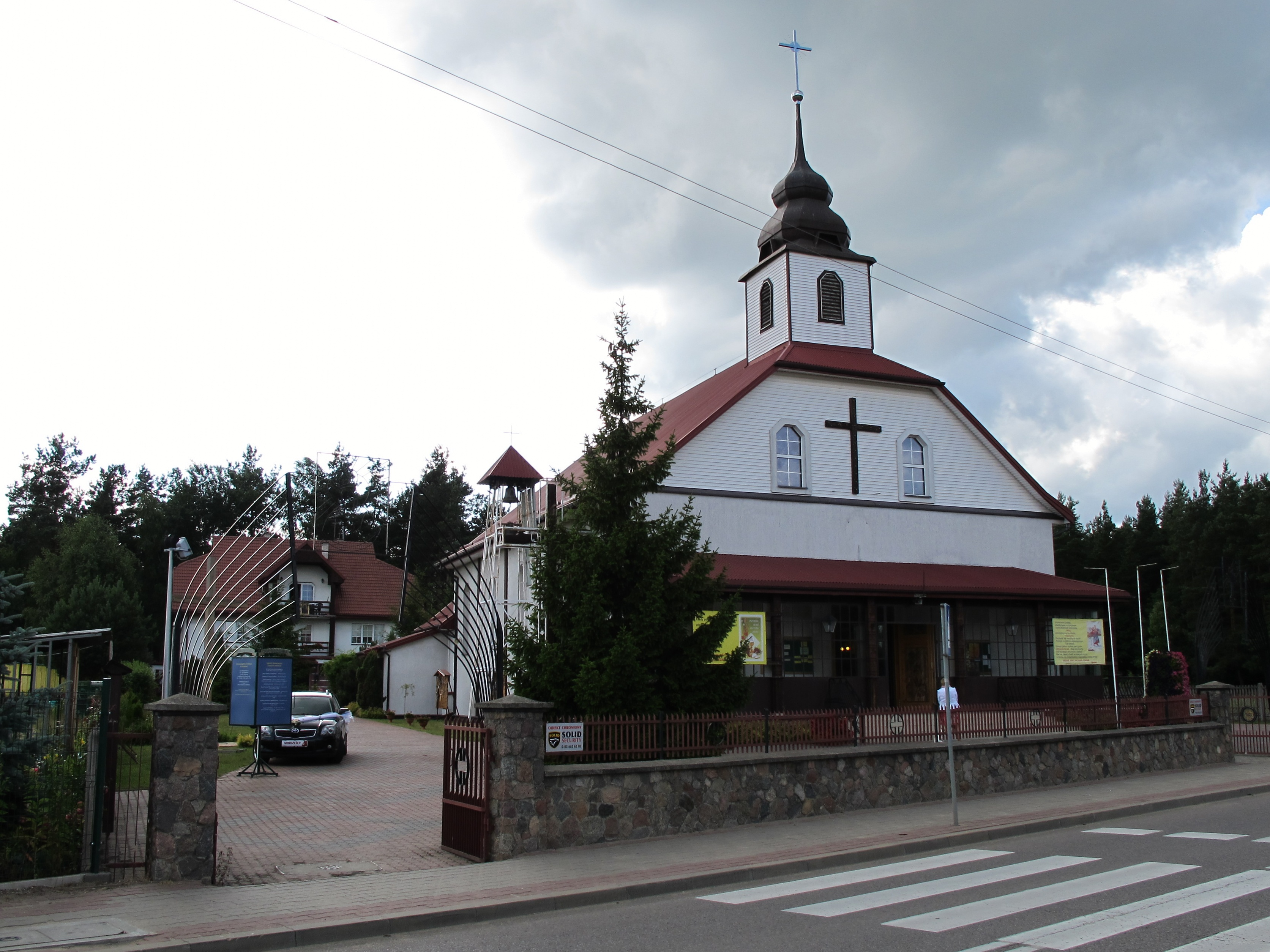 Church of the Holy Cross at Białostocka 76 street in Grabówka, gmina Supraśl, podlaskie, Poland